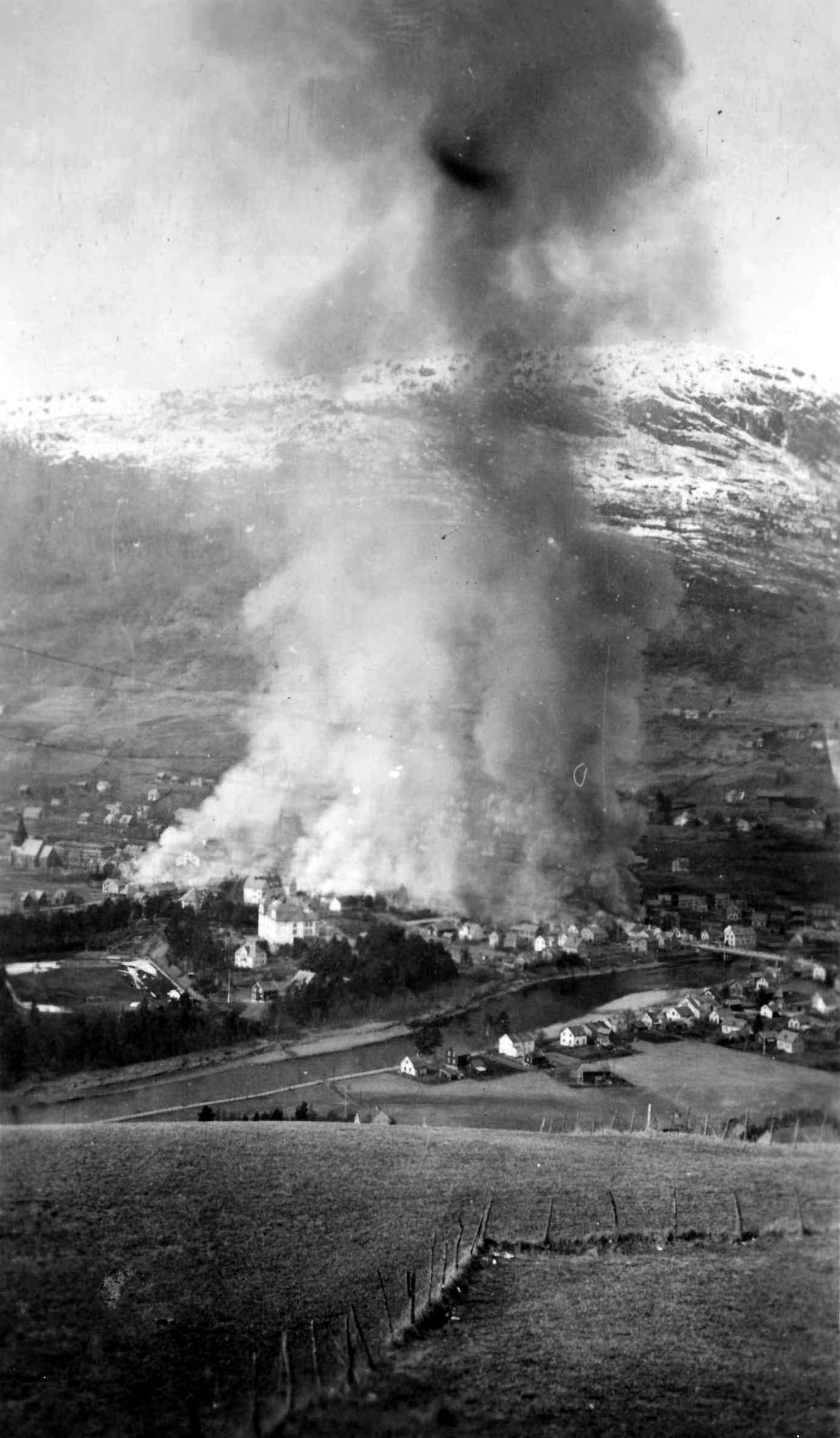 A fire after a bombing in Voss in western Norway